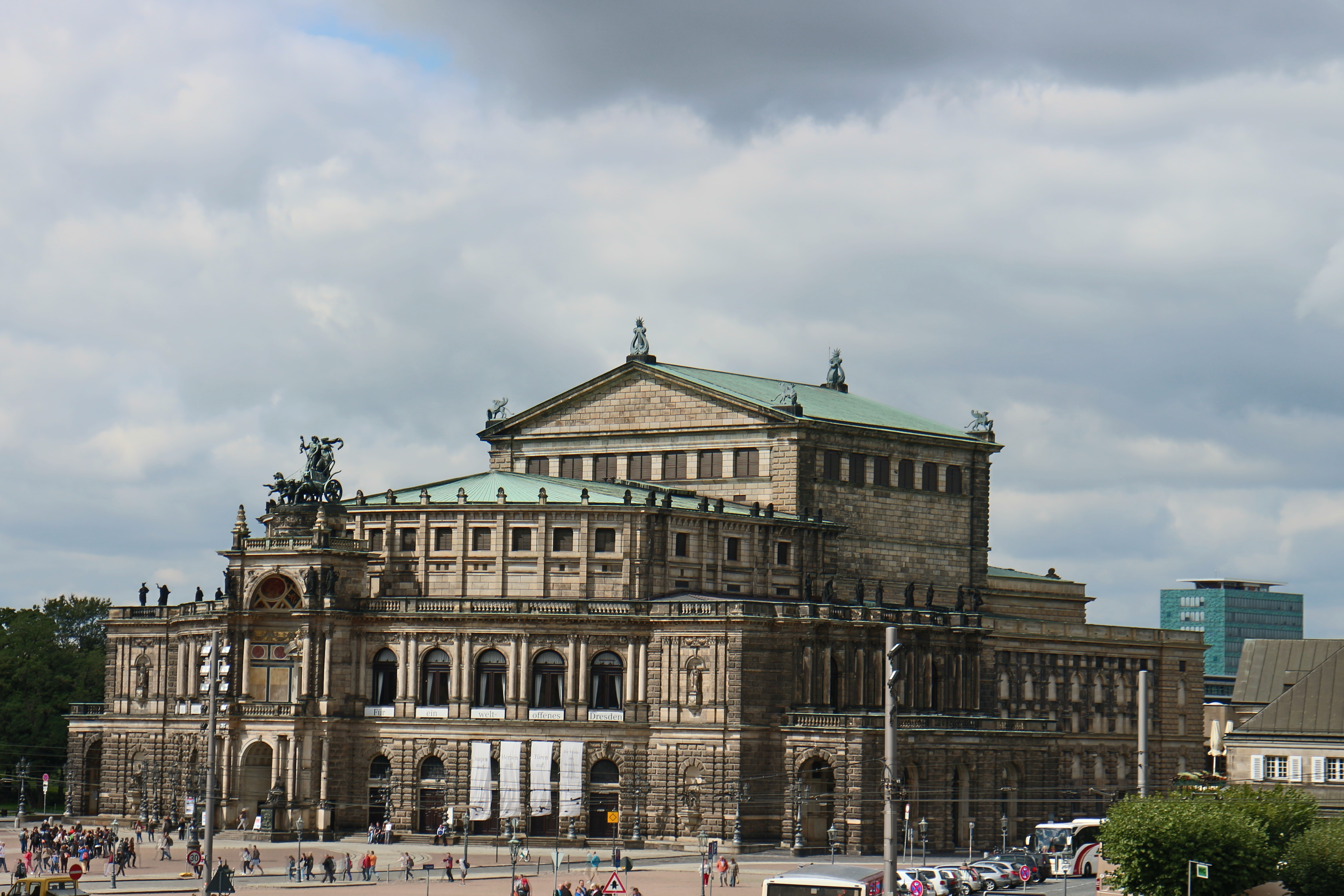 Semperoper